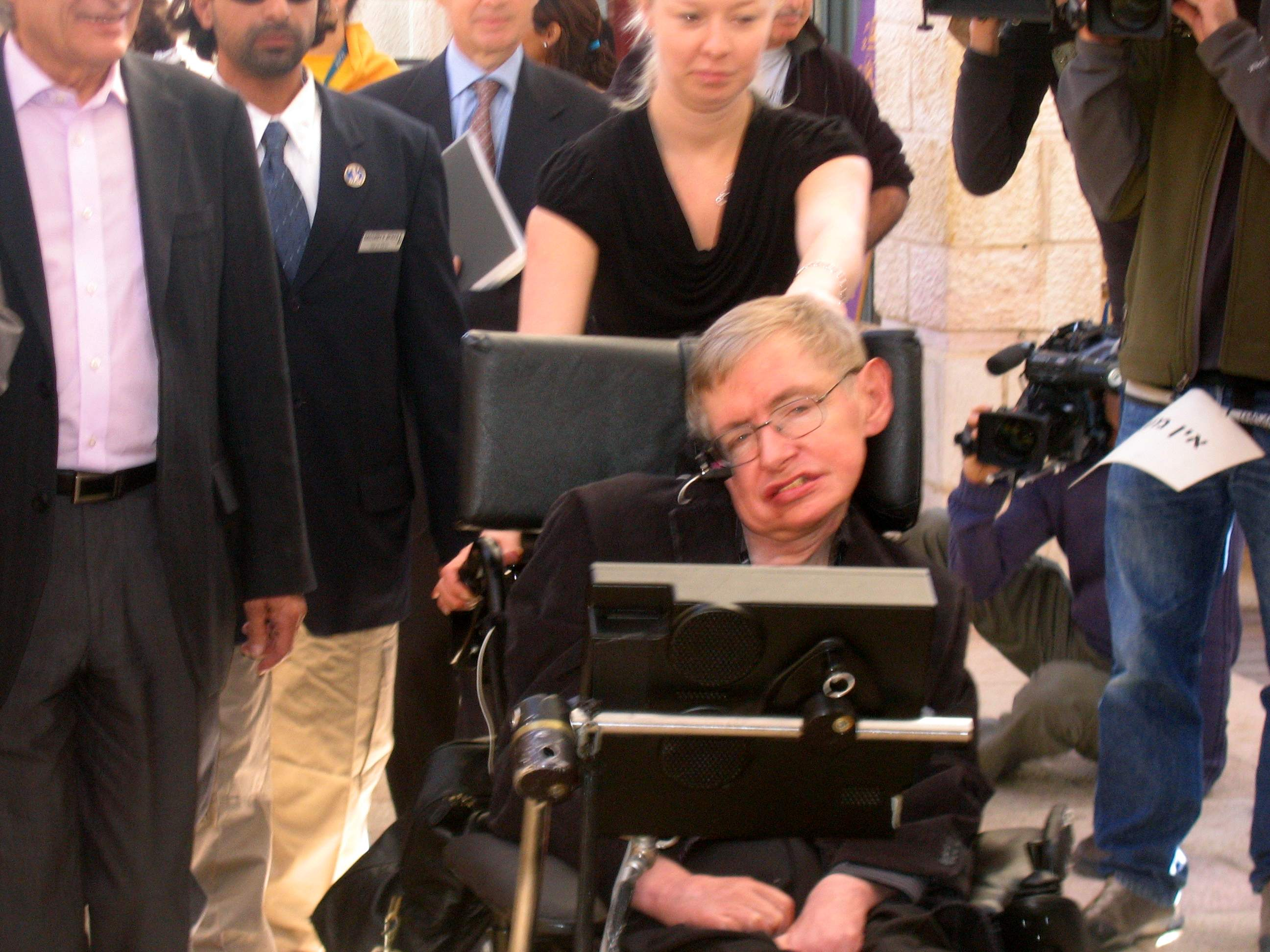 Prof. Stephen Hawking on his way to a lecture before highschool students in Jerusalem, Dec 10. 2006